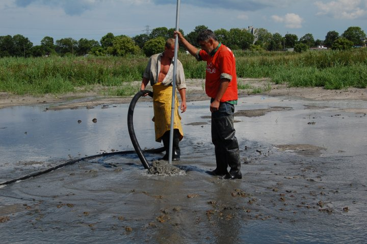 Extracting Baltic amber from Golocene deposits. Gdansk, Poland.